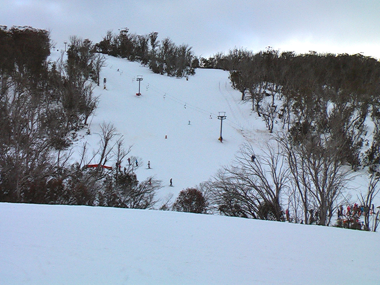 Looking to the Racecourse Run from Kangaroo Ridge, Selwyn Snowfields, Australia. July 2011.